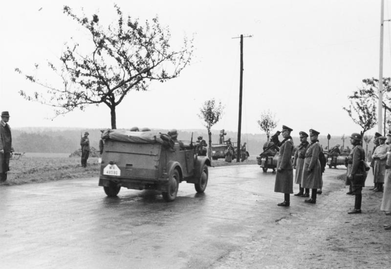 The car is le.gl. Einheits-Pkw jeep